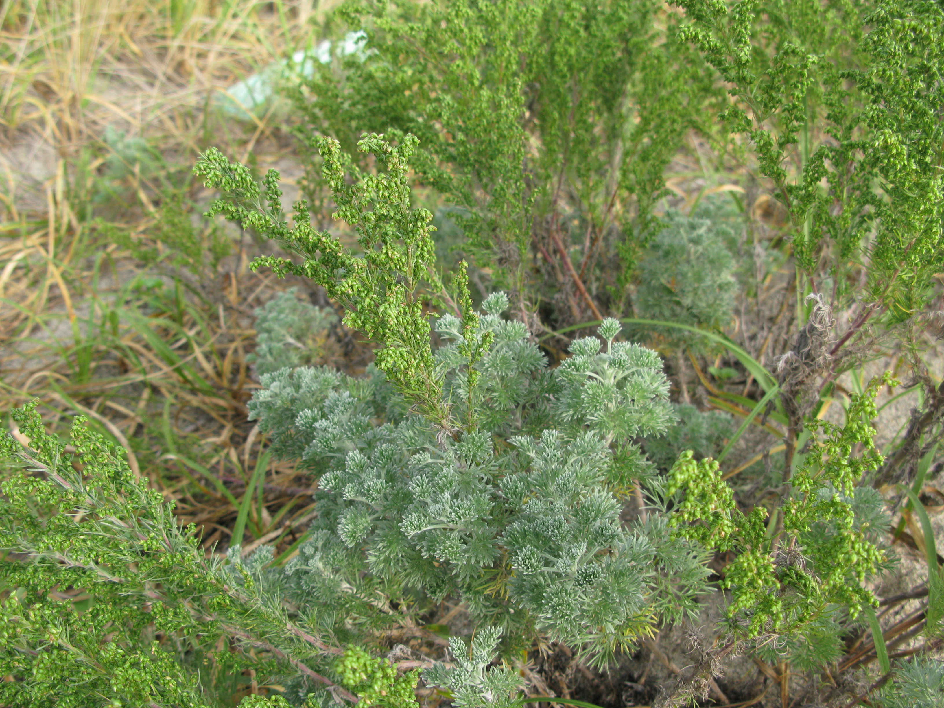 Artemisia capillaris, Syonai area, Yamagata pref., Japan